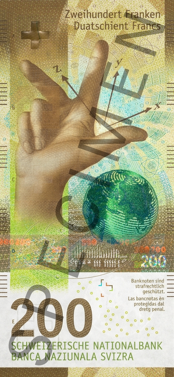 Front of the Swiss 200-franc banknote, ninth series (issued in 2018).